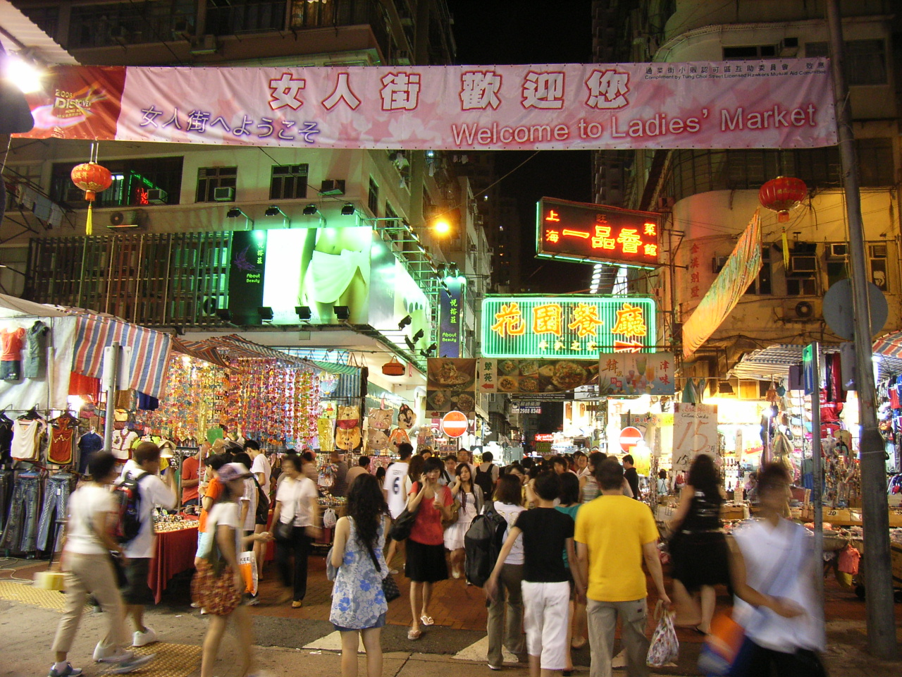 女人街的夜市。 Photo by TonySKTO